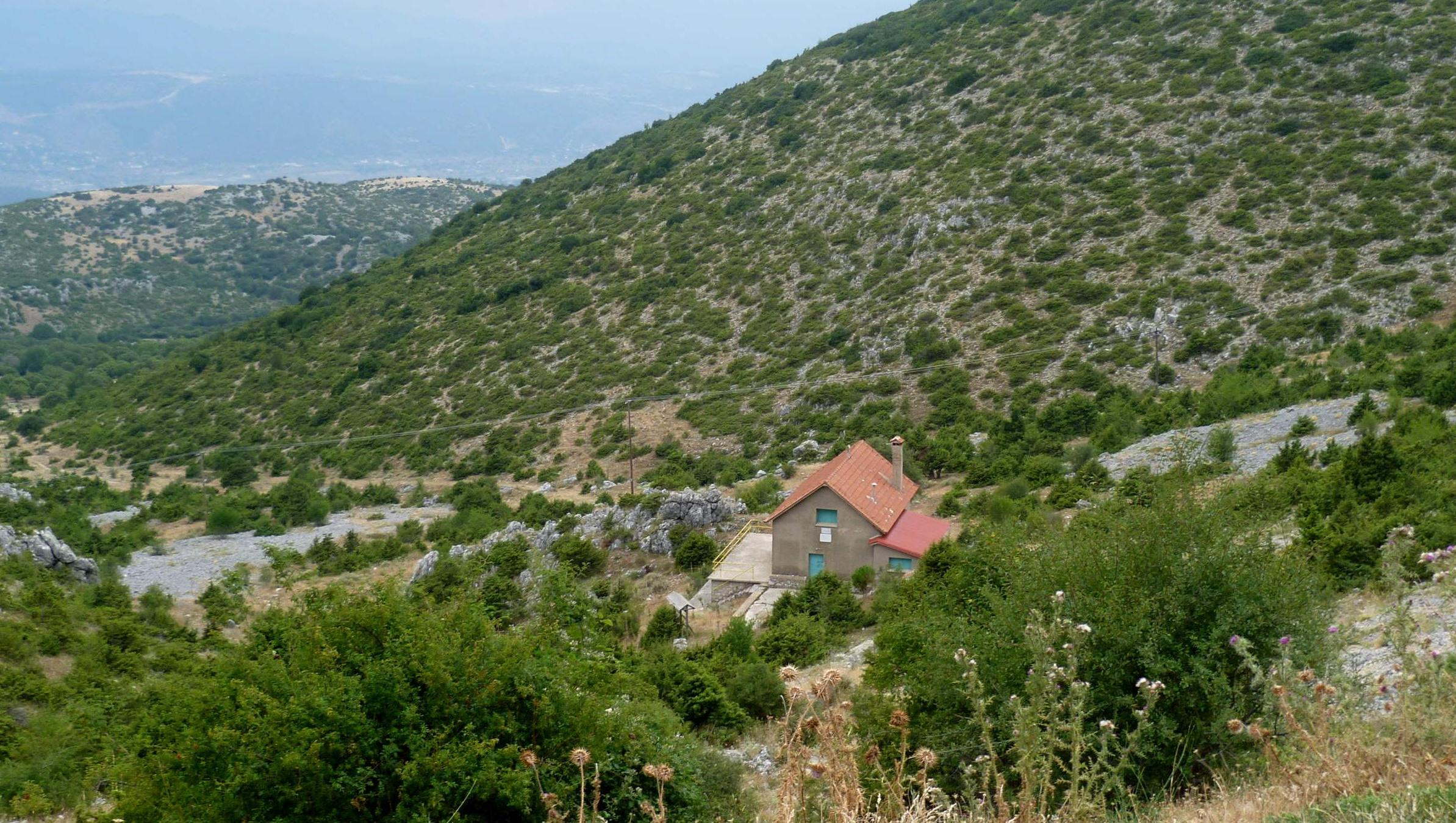 This is a photography of Natura 2000 protected area with ID GR2130008